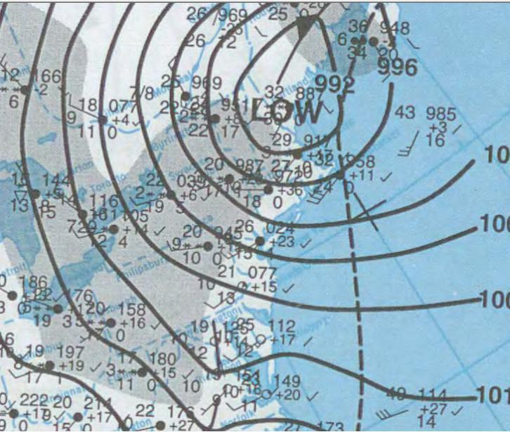 Surface weather analysis of a nor'easter on 31 December 2000.